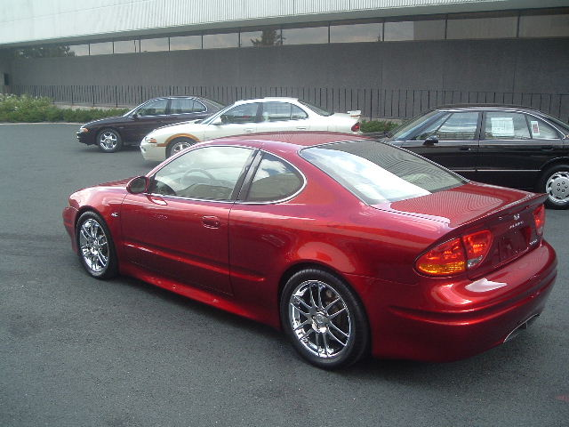 Metallic red Oldsmobile Alero OSV - "Oldsmobile Speciality Vehicle".